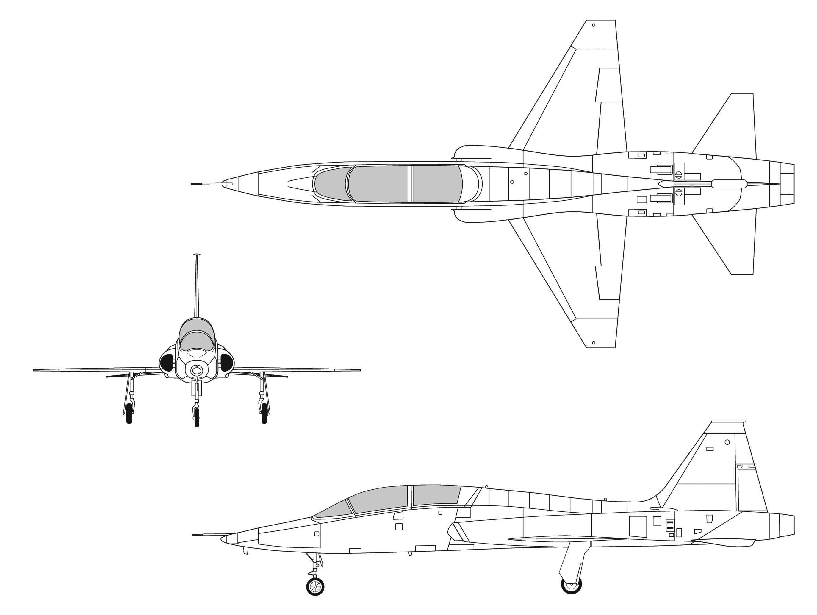 Line drawings of the Northrop T-38A Talon.